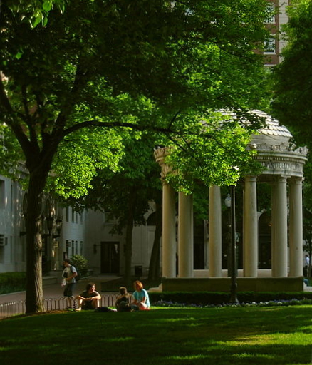 Van Amridge Quadrangle, Columbia University